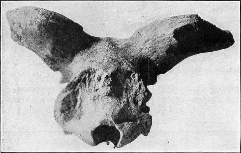 Photograph of posterior view of skull of Soergelia mayfieldi holotype. Note Troxell called this species Preptoceras mayfieldi. Cat. No. 10920, Yale Museum. Found in Rock Creek, Texas.